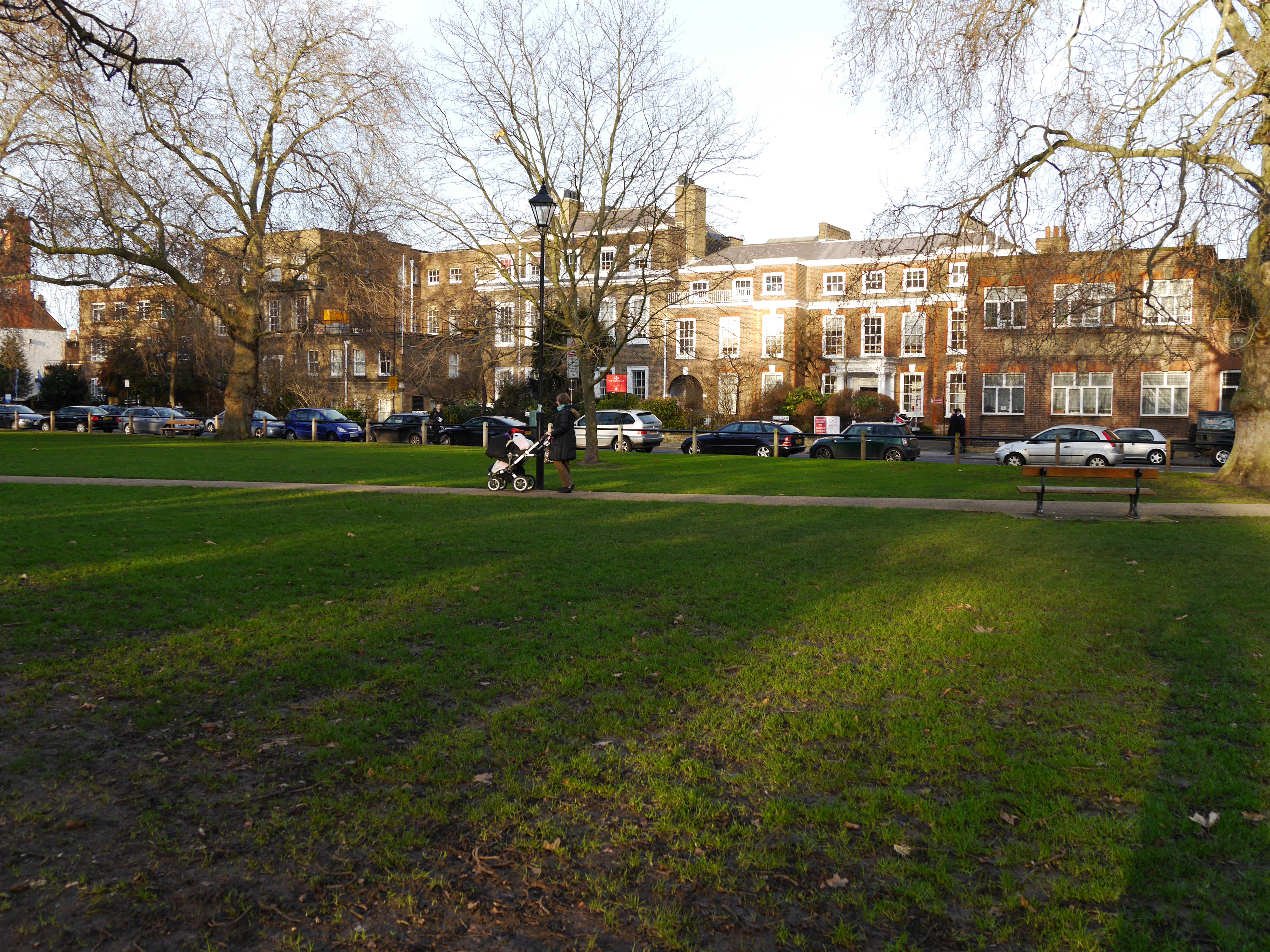 Lady Margaret School, Parsons Green, London